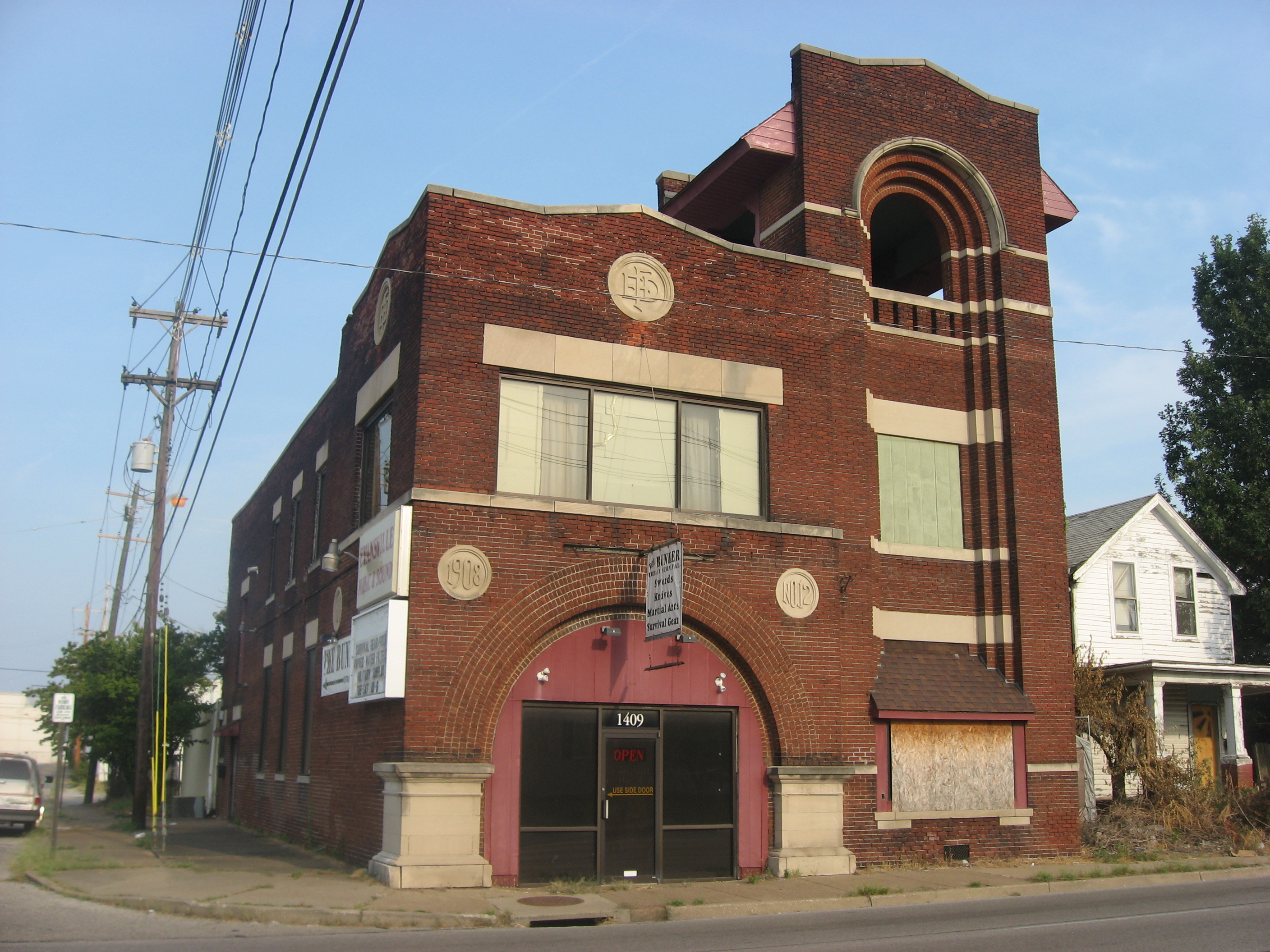 Front and northern side of Hose House No. 12, located at 1409 First Avenue in Evansville, Indiana, United States. Built in 1908, it is listed on the National Register of Historic Places.